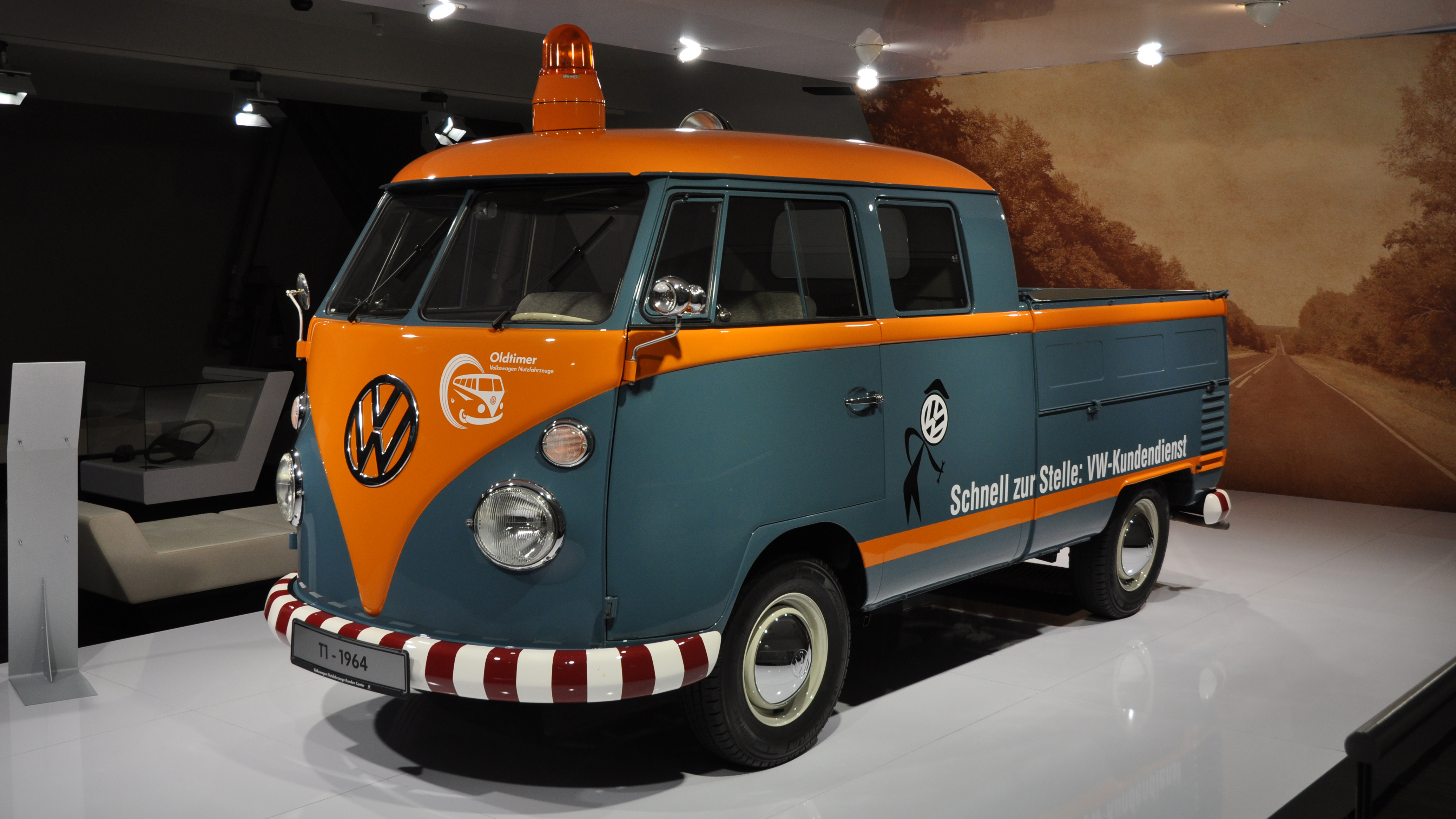 Volkswagen T1 Doppelkabine (1964) at the Autostadt Wolfsburg